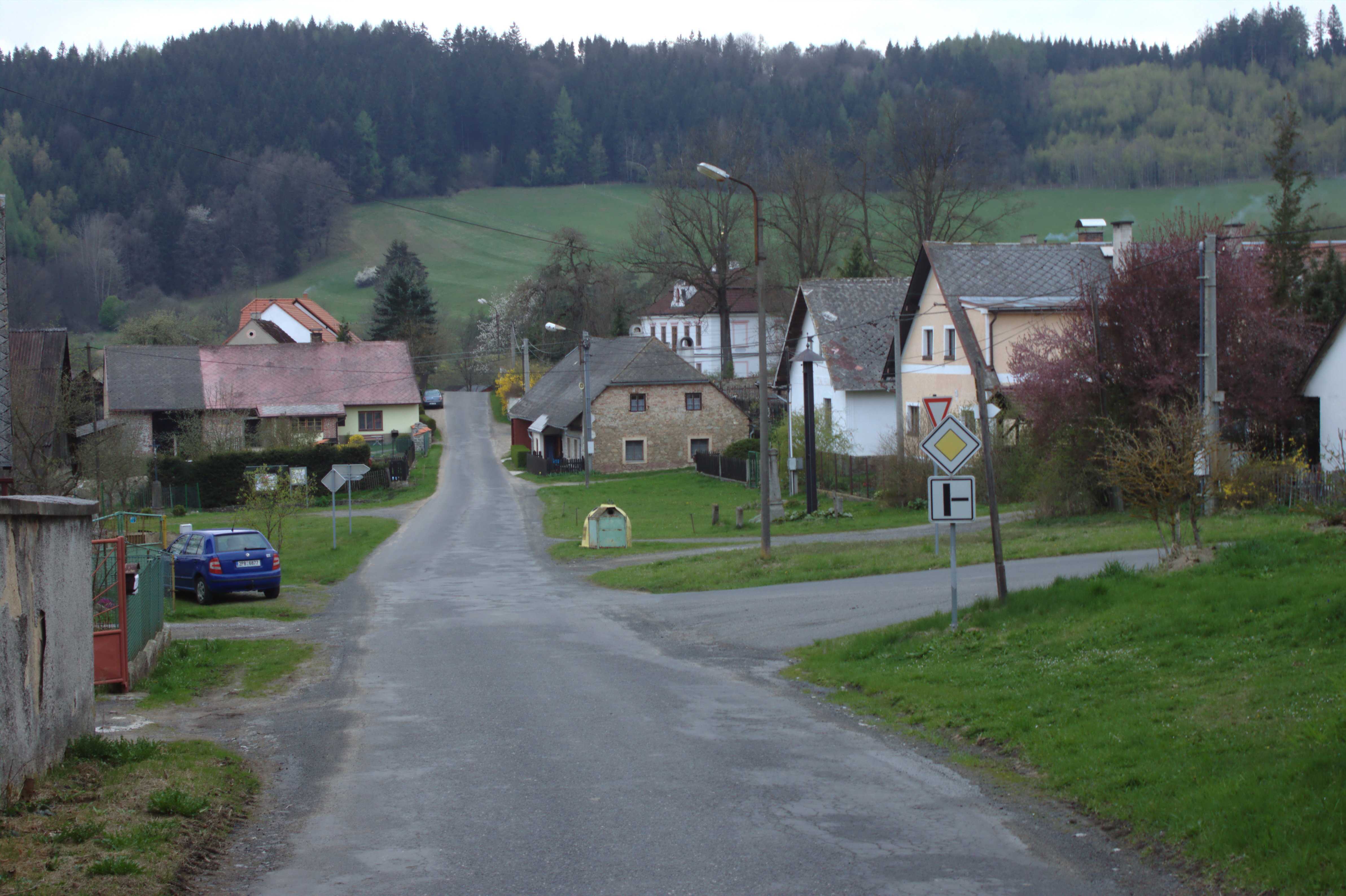 Buildings in the village of Podolí, near Kolinec, Plzeň Region, CZ